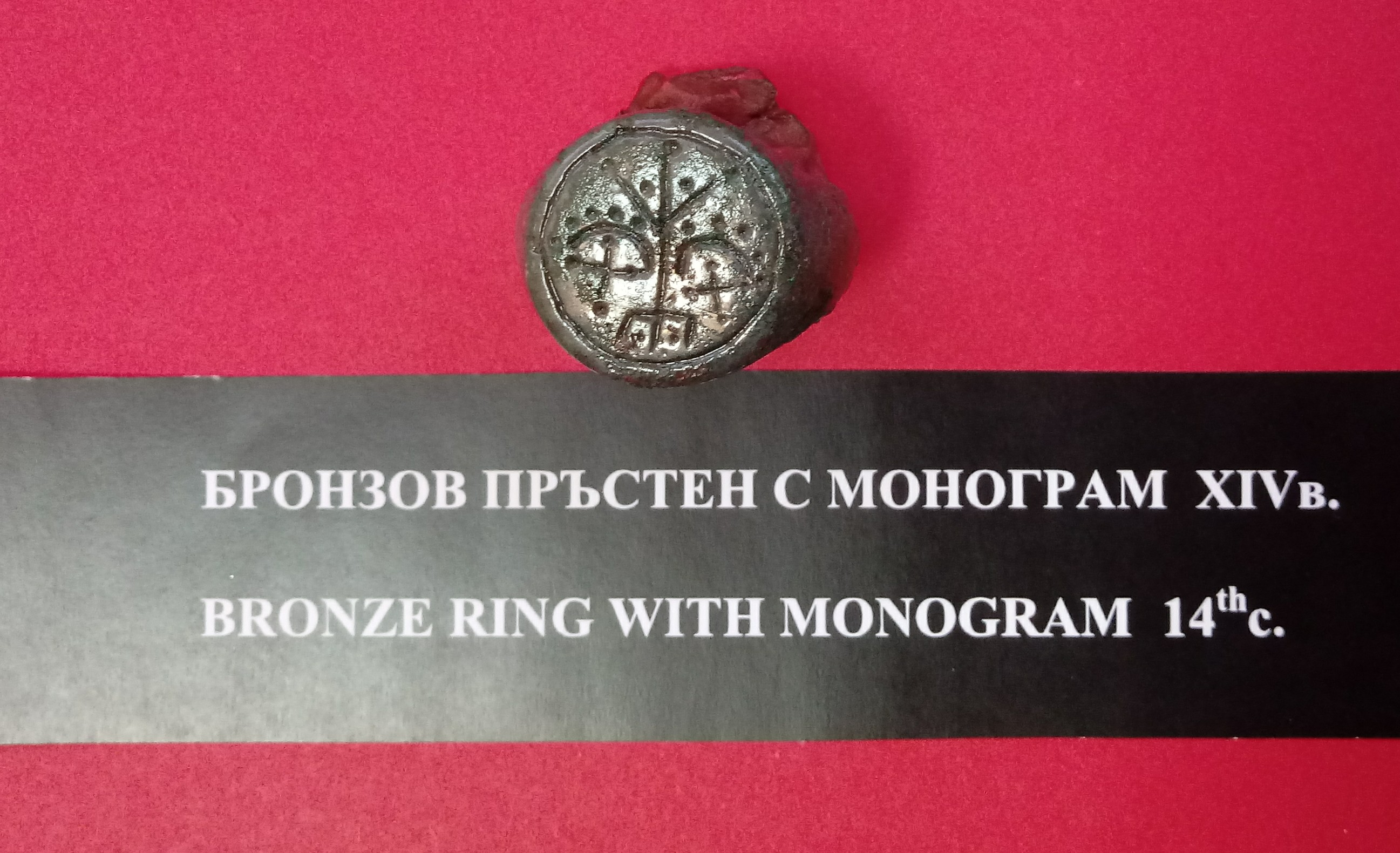 This photo/audio/video was uploaded during the creation of the first wikitown in Bulgaria – WikiBotevgrad. All files are uploaded by their authors or their permission. The cooperation is between Wikimedians of Bulgaria User Group, Municipality Botevgrad, Historical Museum - Botevgrad and Ivan Vazov Library in Botevgrad.